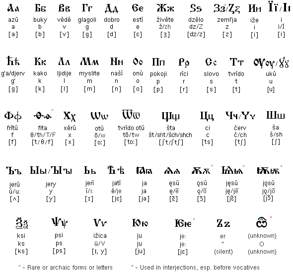 A chart showing the letters, O.C. Slavic names, transliterations, and IPA descriptions of the Early Cyrillic alphabet. Font is "Helvetica 12" (in xpaint under Slackware).